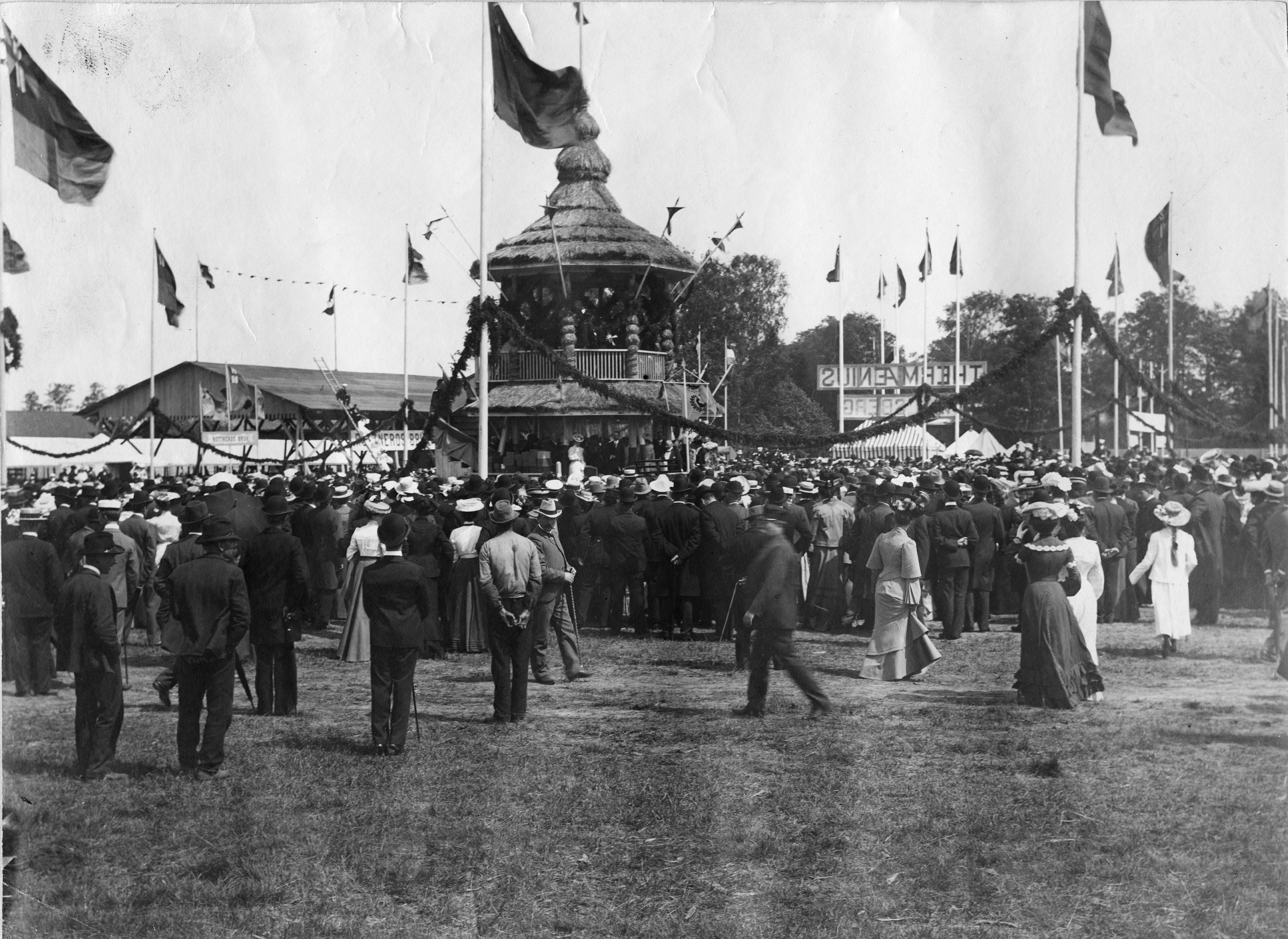 Opening of the Industry- and agricultural exhibition in Karlstad 1903. The exhibition is inaugurated by the crown prince Gustaf Adolf.